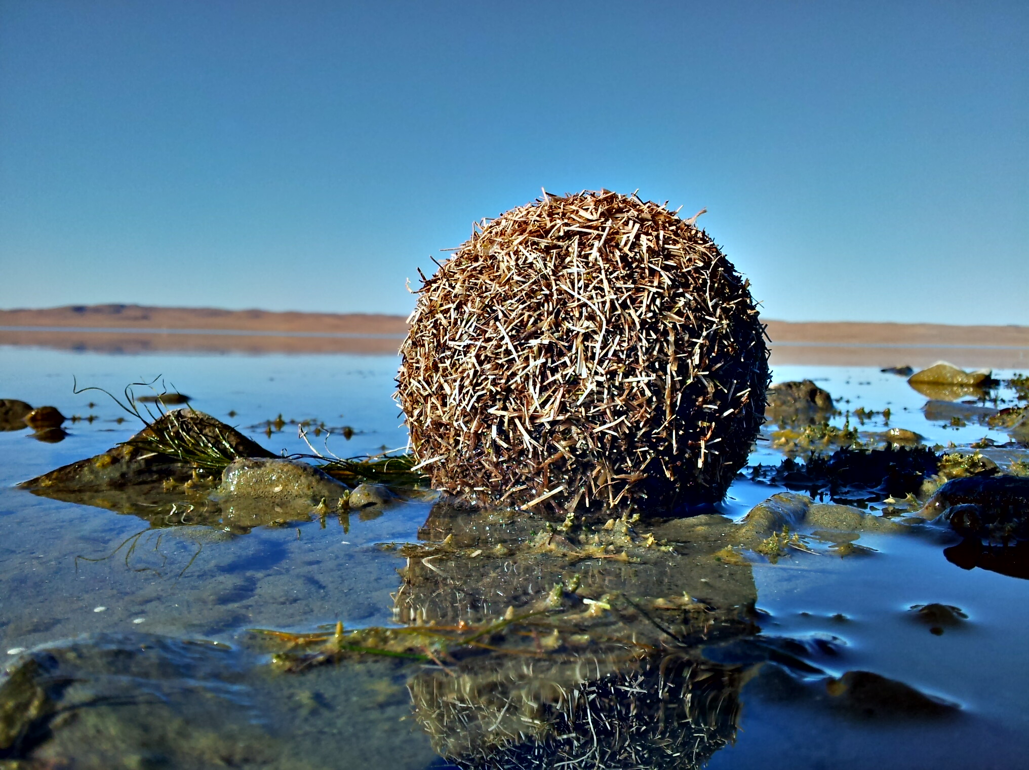 Surf ball or lake ball on the southern shore of Ögii Nuur (Lake), Arhangay, Mongolia